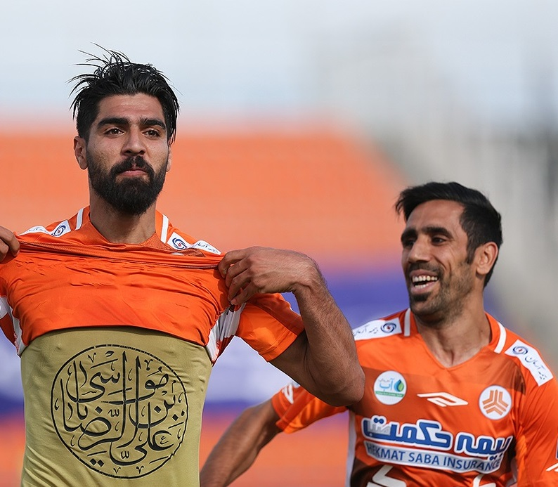 Peykan vs Saipa, Iran pro league - 27 April 2018. main album